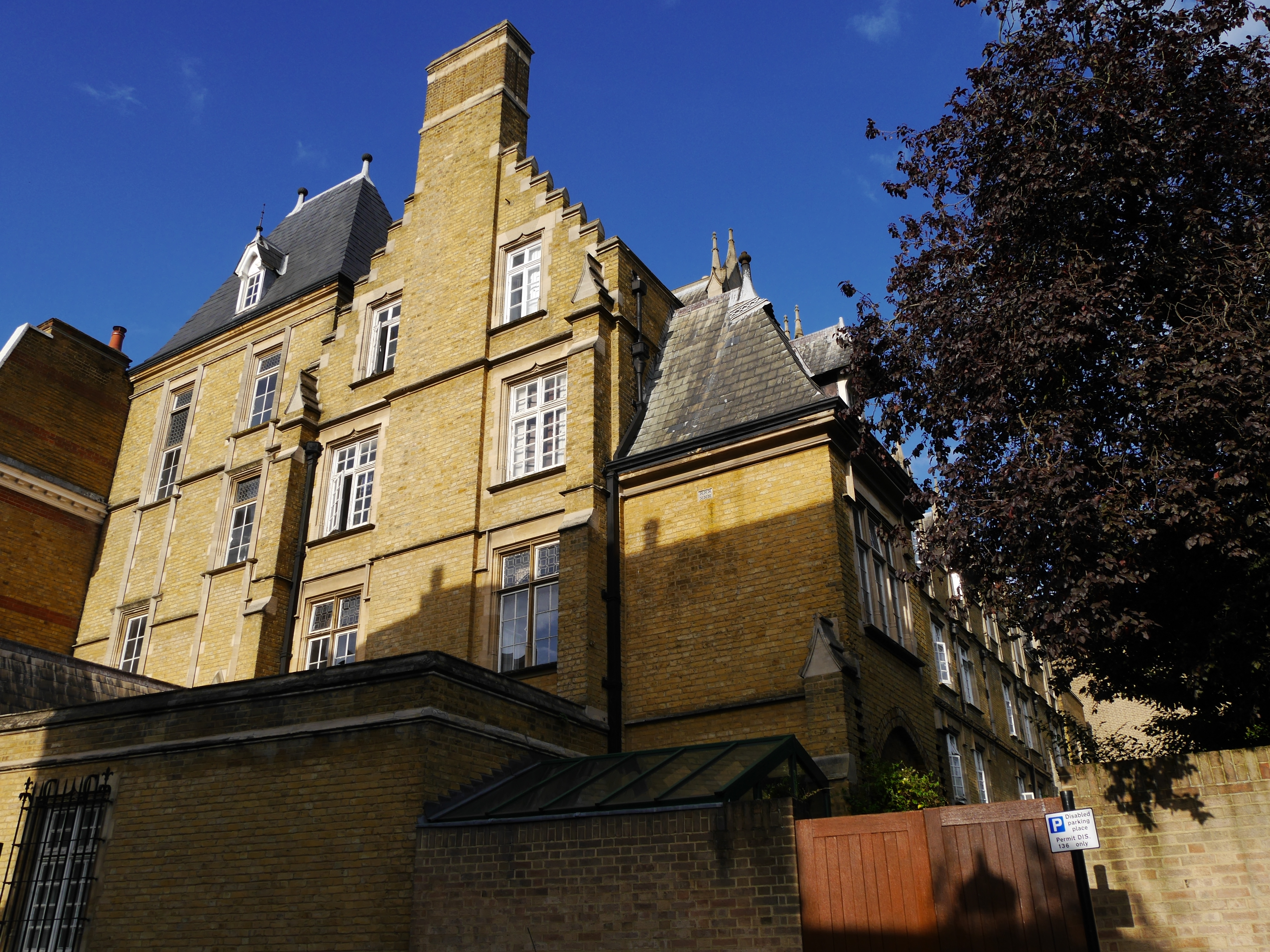 Carmelite Priory, London, September 2016